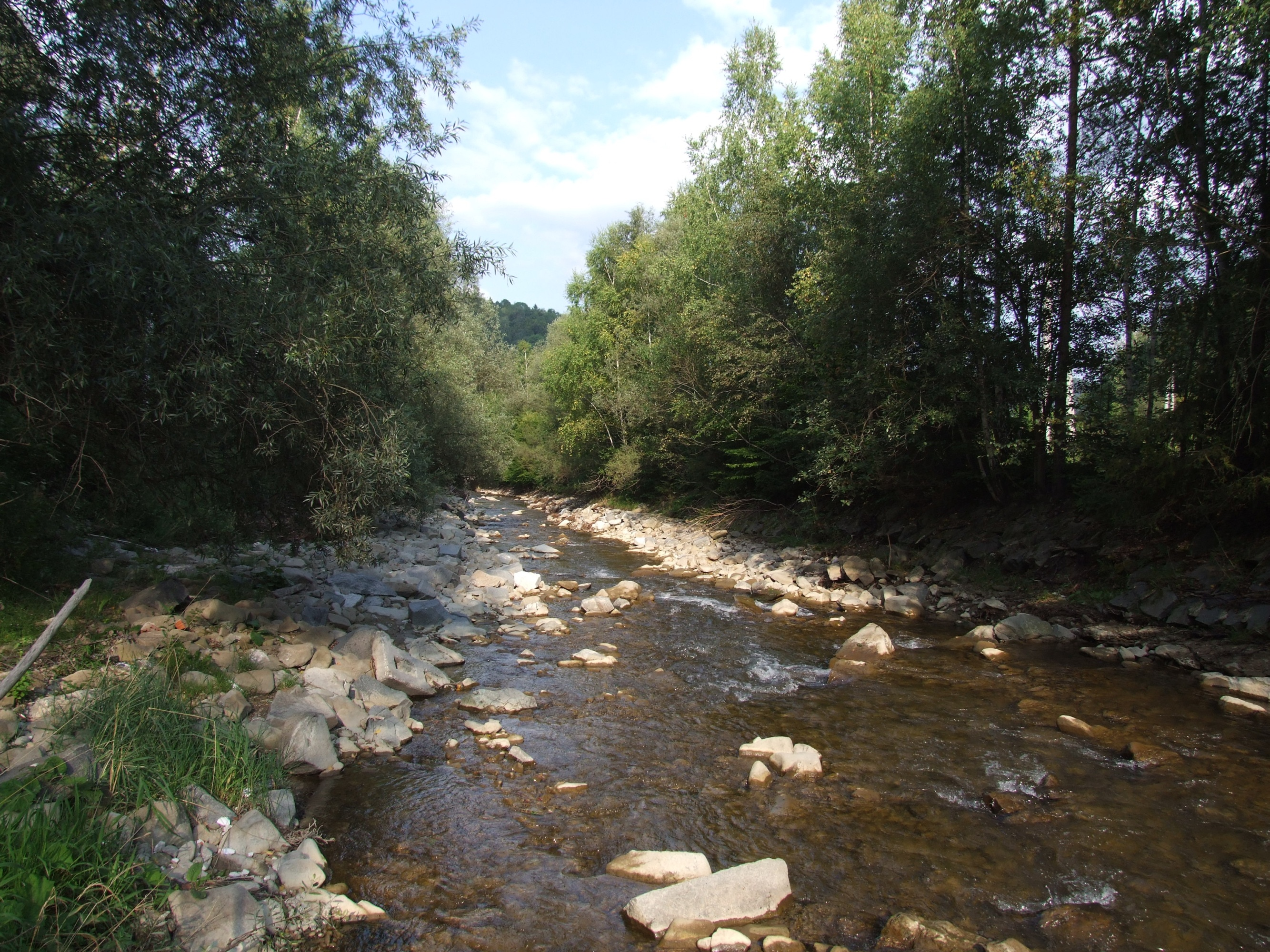 Mníšek nad Popradom (of Mníšek nad Popradom)